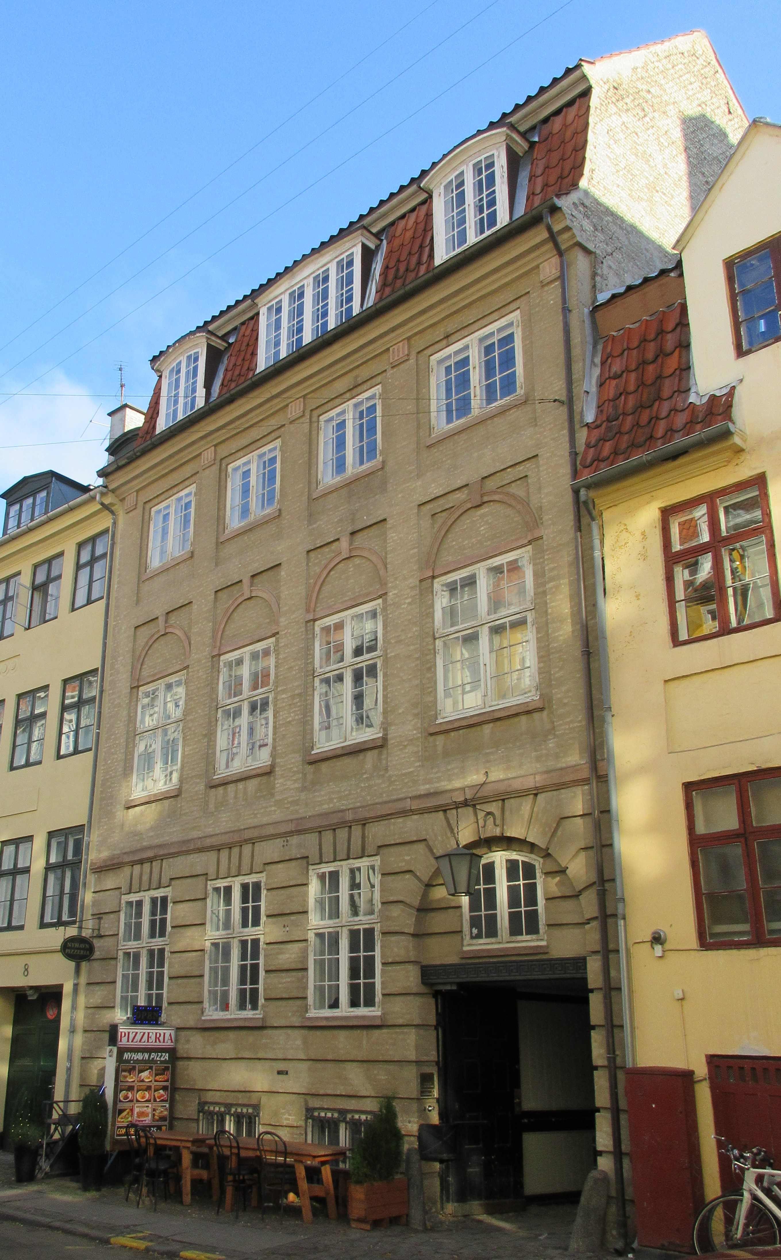 Lille Strandstræde 6 in Copenhagen, Denmark